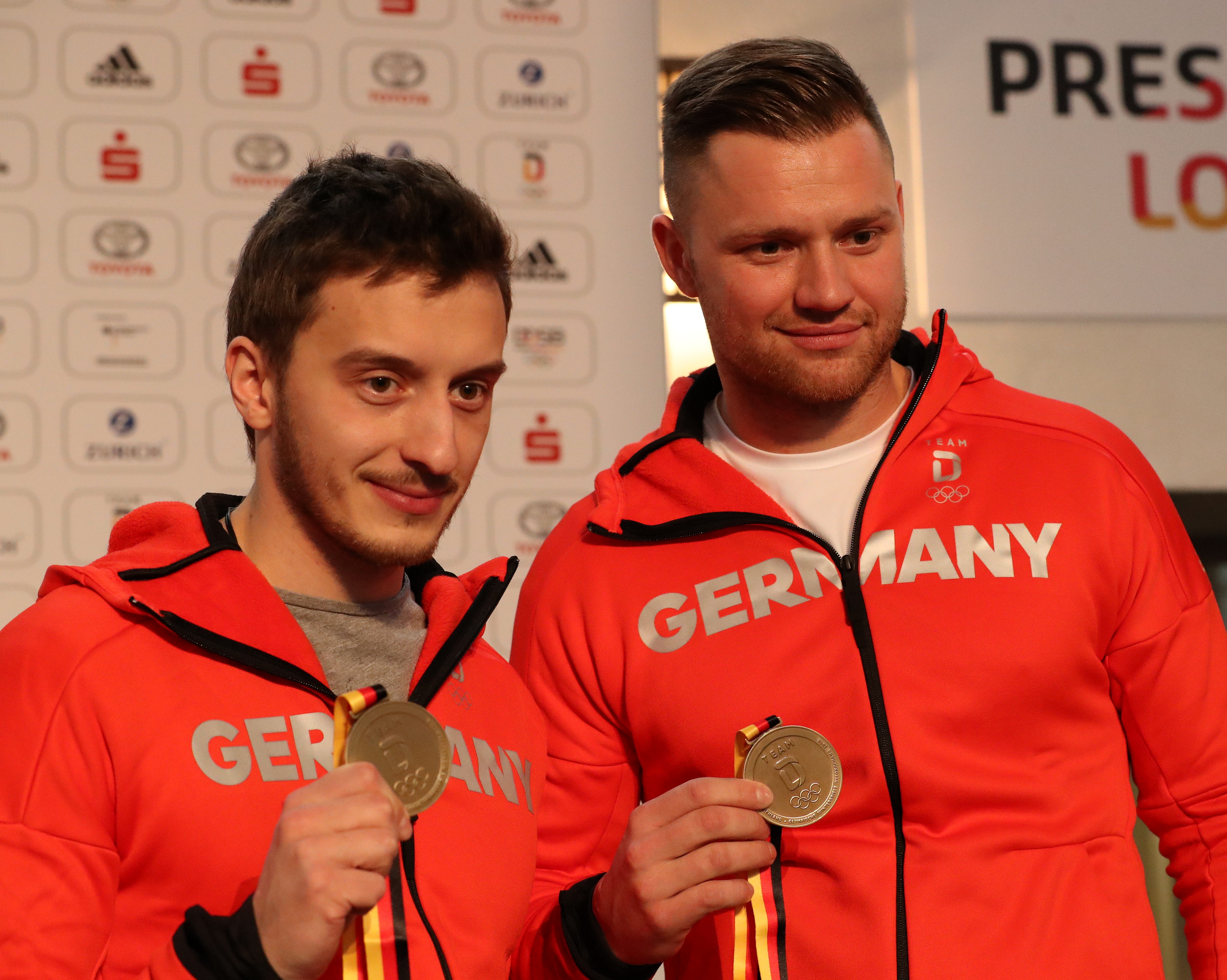 Investiture of the German team for Winter Olympics 2018 in Pyeonchang: Sascha Benecken, Toni Eggert